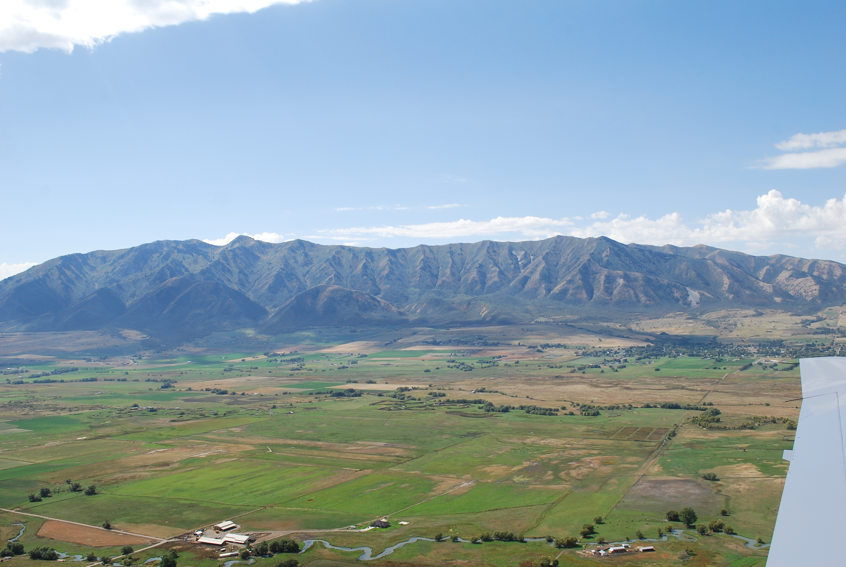 The Wellsville Mountains range in Cache Valley, Utah from aeroplane.